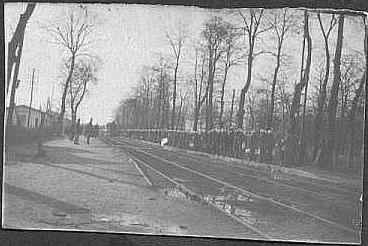 La gare de Croix-d'Hins en 1918